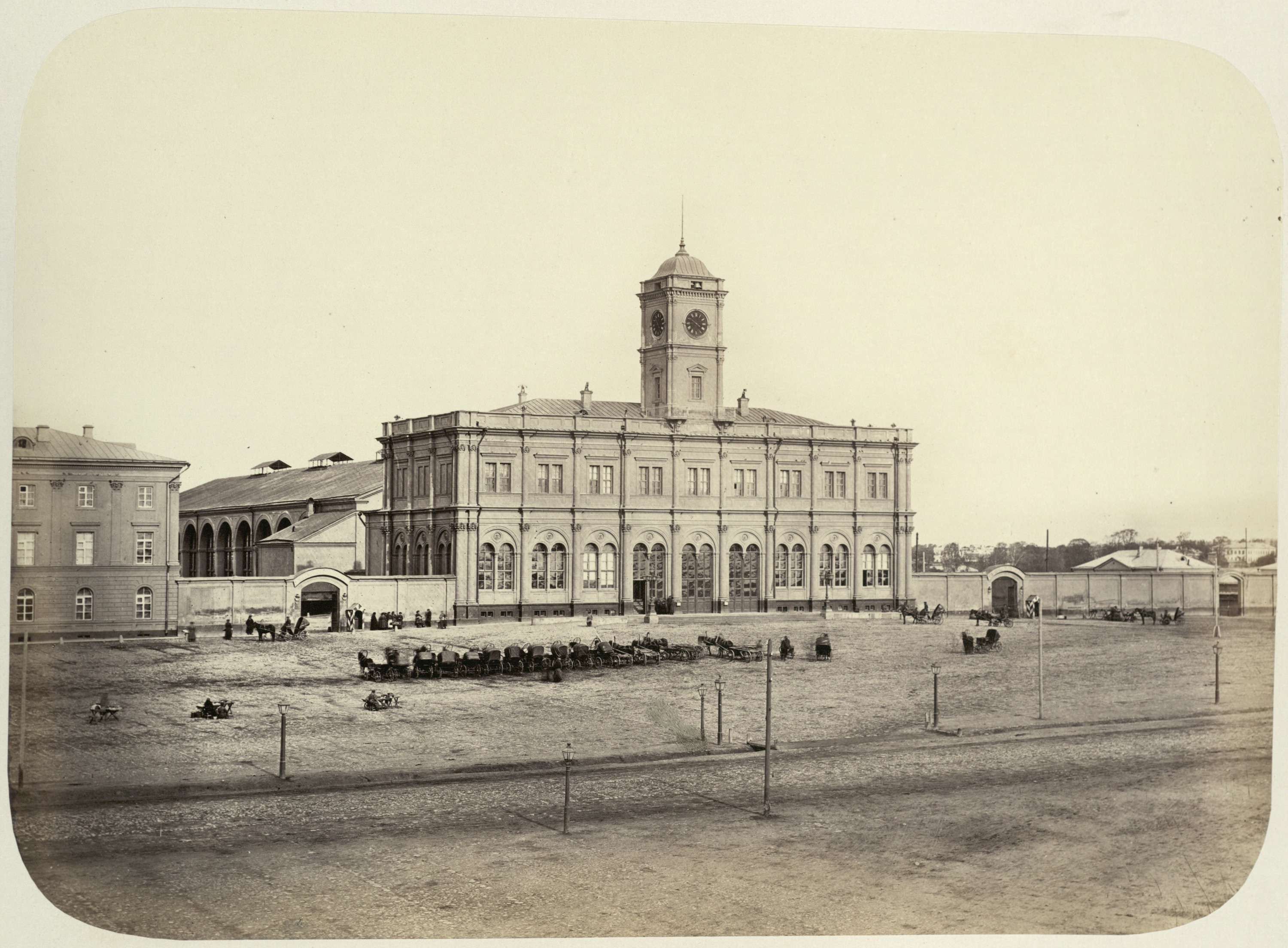 Nikolaevsky depot in Moscow